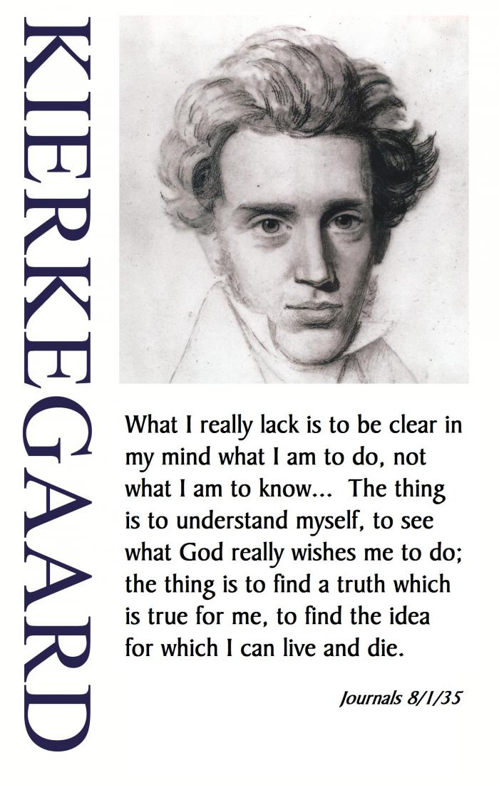 Kierkegaard: to find the idea for which I can live and die